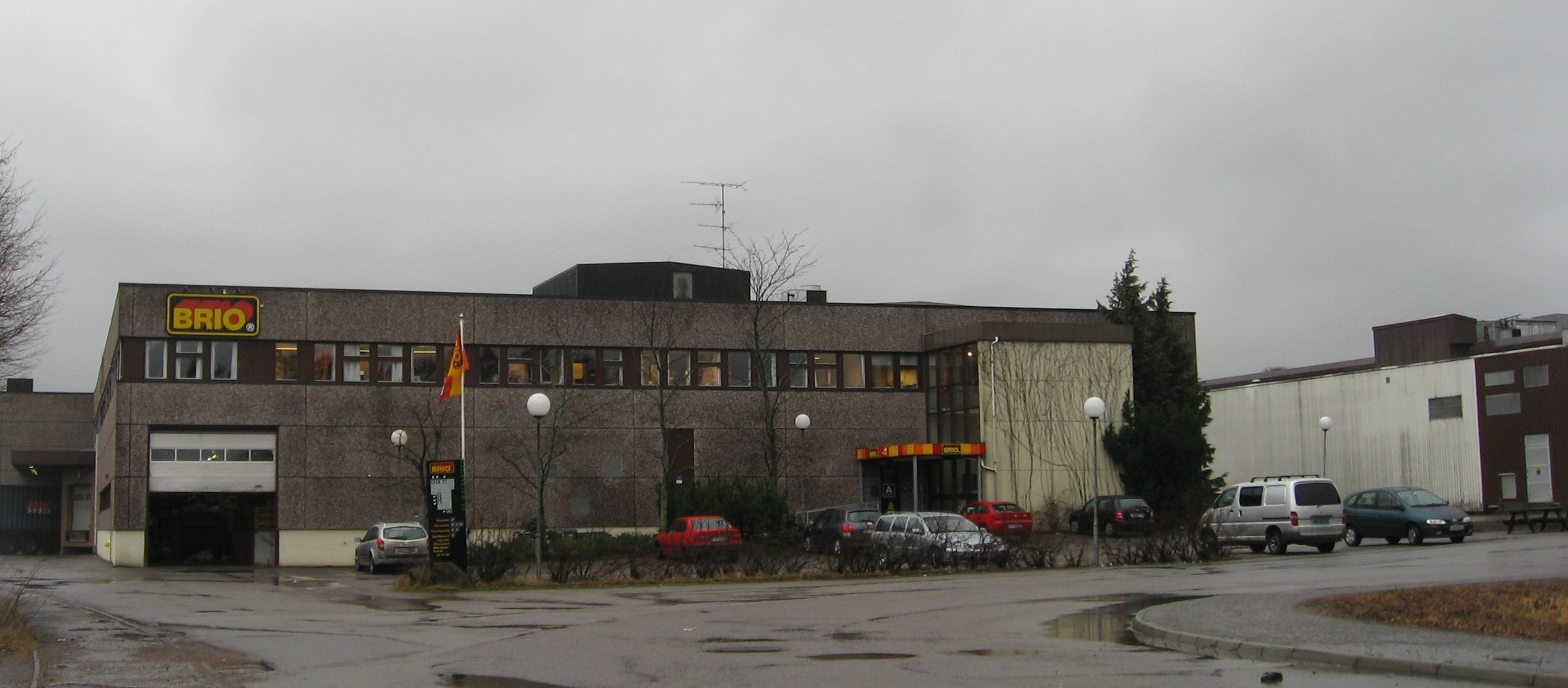 Brio in Tønsberg, Norway (manufacturer of wooden toys)